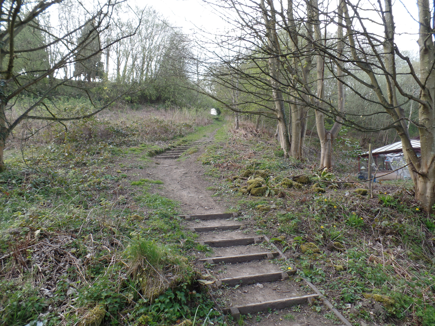 Course of the former Moss (western) railway inclined plane in Brymbo, looking west from near the bottom; photograph from 2019